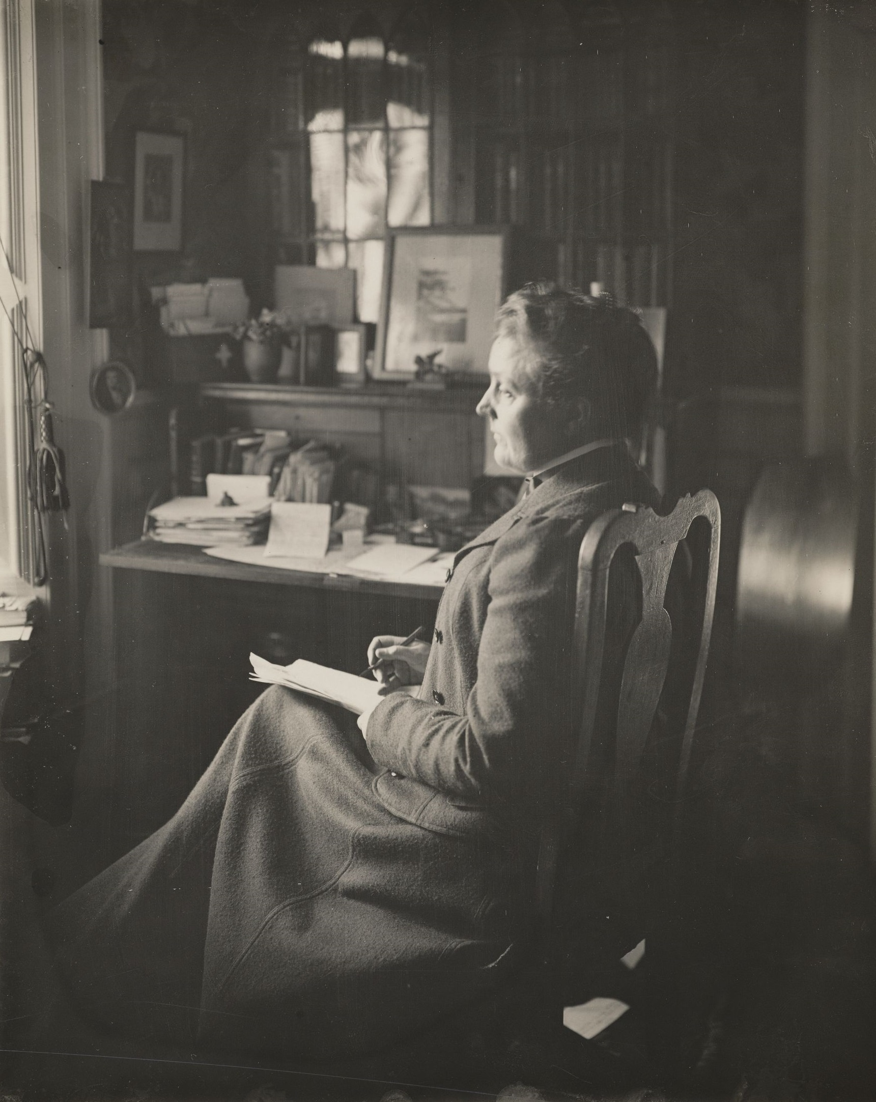 Photograph of American author Sarah Orne Jewett (died 1909). Sarah Orne Jewett Compositions and Other Papers, 1847-1909 (MS Am 1743.26 (16), Houghton Library, Harvard University